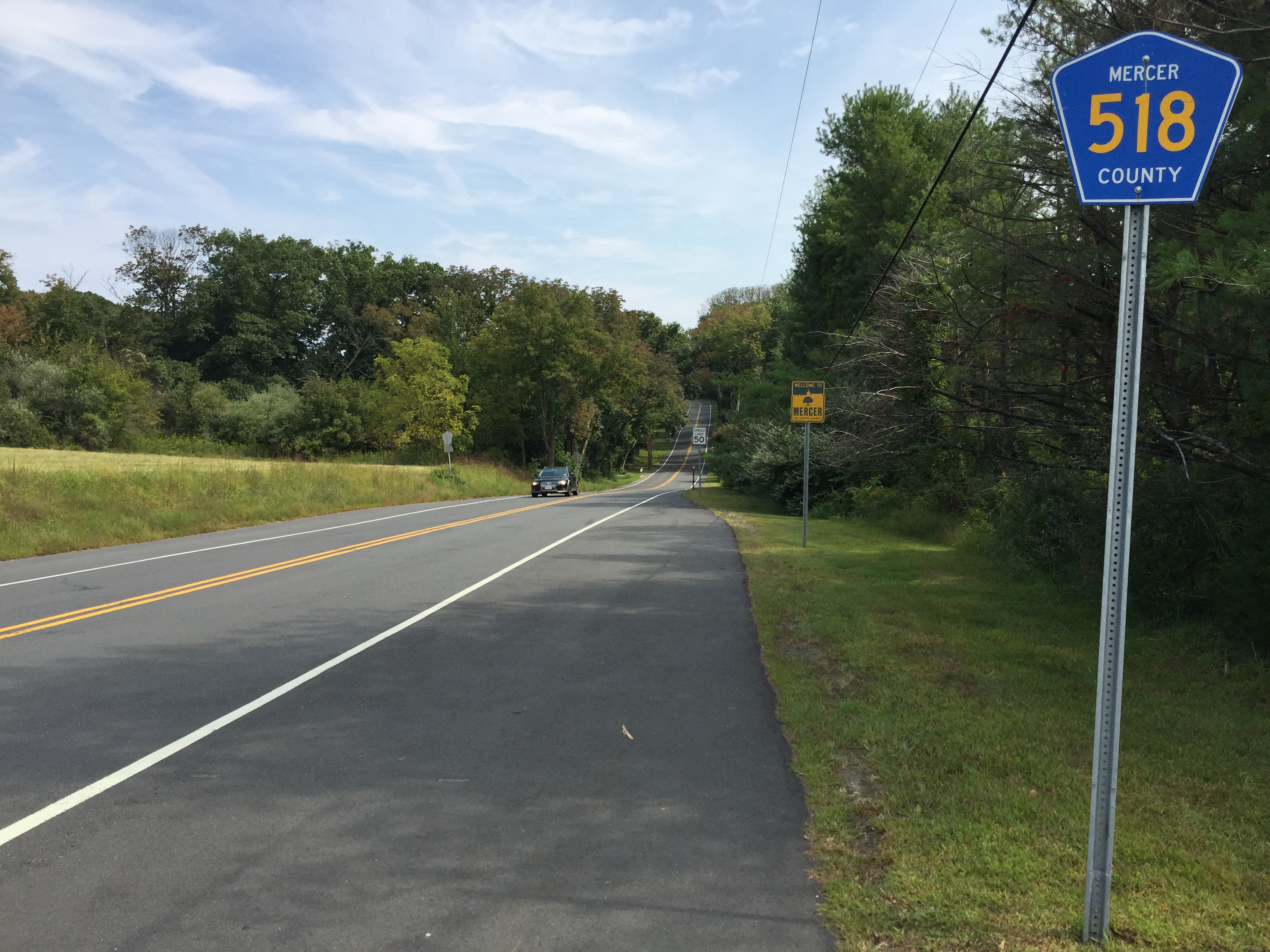 View east along Lambertville-Hopewell Road (Mercer County Route 518) at Harbourton-Mount Airy Road in Hopewell Township, Mercer County, New Jersey